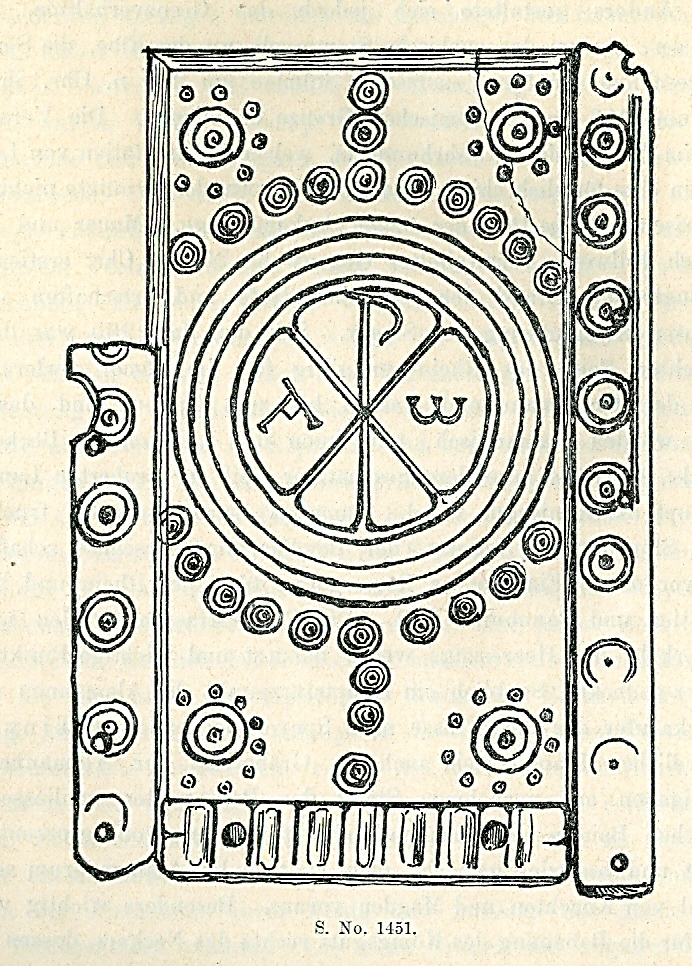 Beinkästchen vom Rosenberg Heilbronn mit Christogramm XP und Symbolen Alpha und Omega, Ende 5. bzw. Anfang 6. Jahrhundert, Nachbildung aus Elfenbein; Länge 10,8 cm.jpg